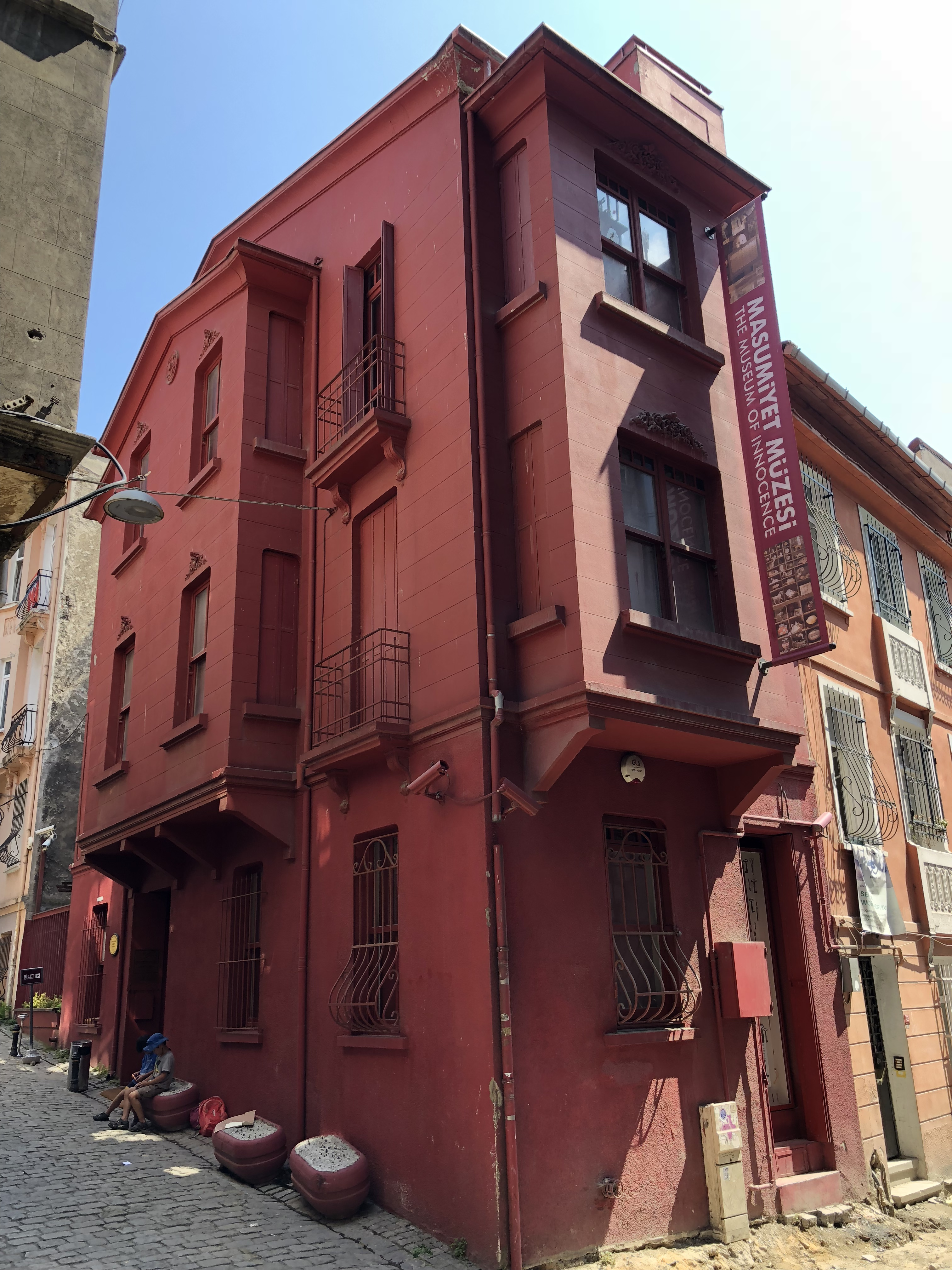 museum located in the district Çukurcuma in Beyoğlu district of Istanbul in Turkey